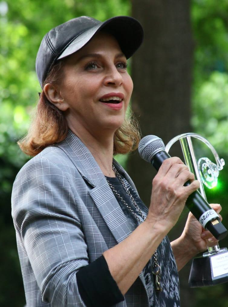 Turkish singer Sertab Erener during 15th Radio Boğaziçi Music Awards.